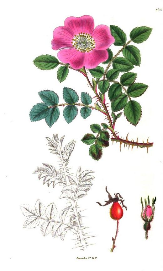 Rosa Wilsoni, named after William Wilson, plate from Supplement to the English Botany of the Late Sir J. E. Smith and Mr. Sowerby.